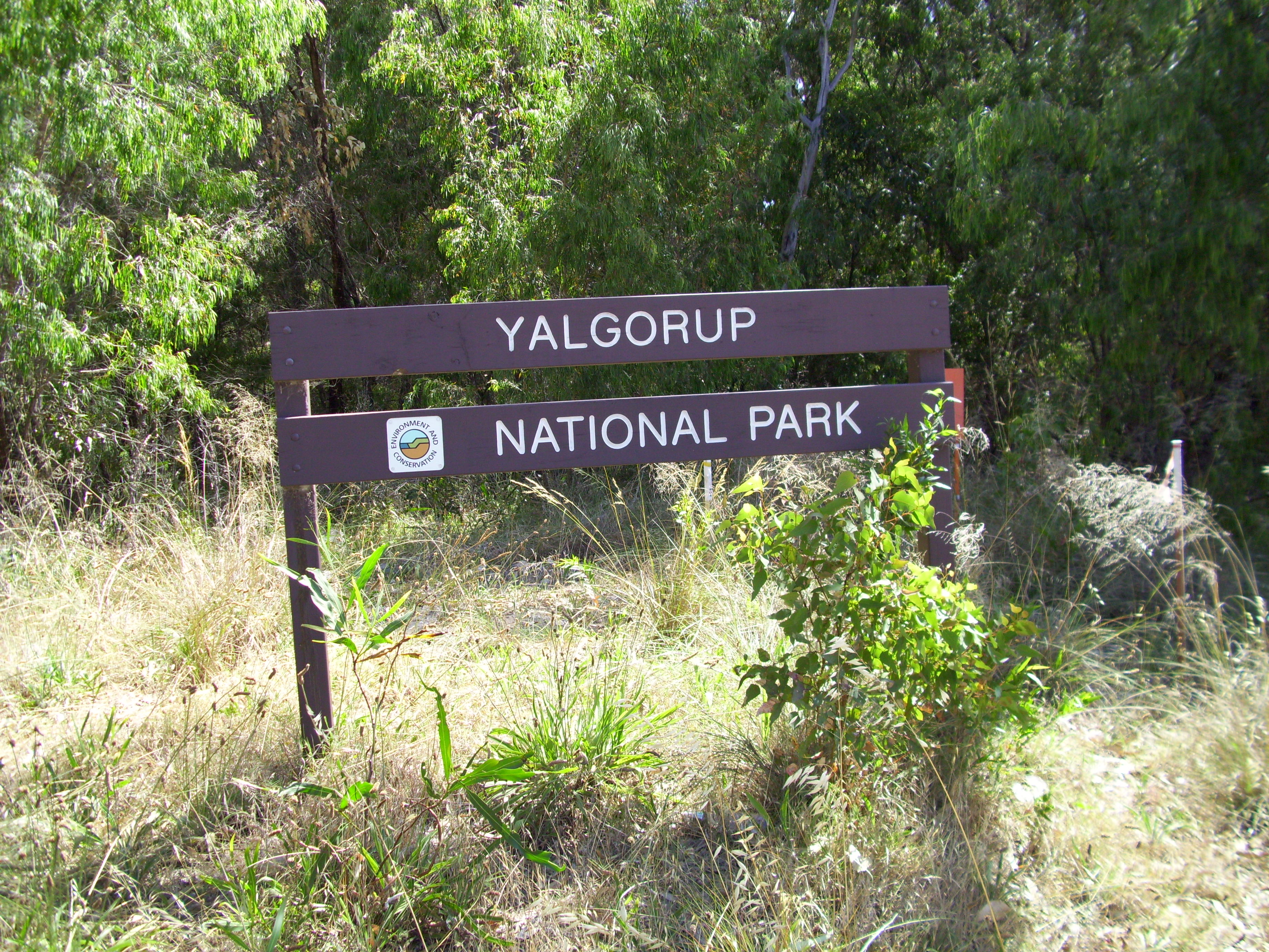 Yalgorup National Park sign at corner of Preston Beach Road and Old Coast Road, Preston Beach, Western Australia